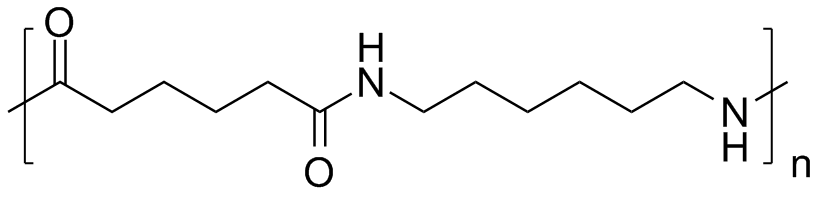 Nylon 6,6 Structure